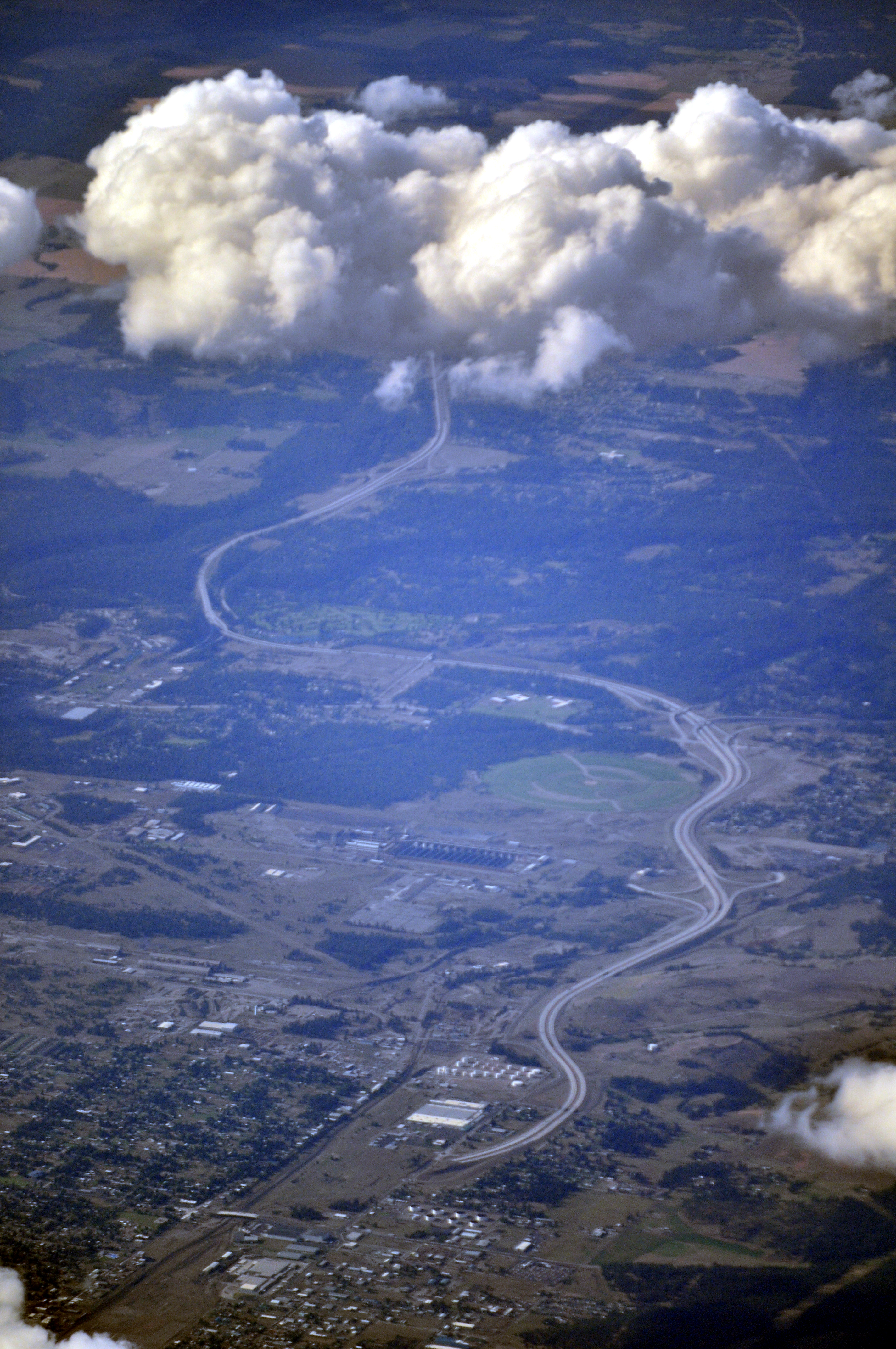 Aerial view of U.S. Route 395 just north of Spokane, Washington, U.S., from slightly east of south.